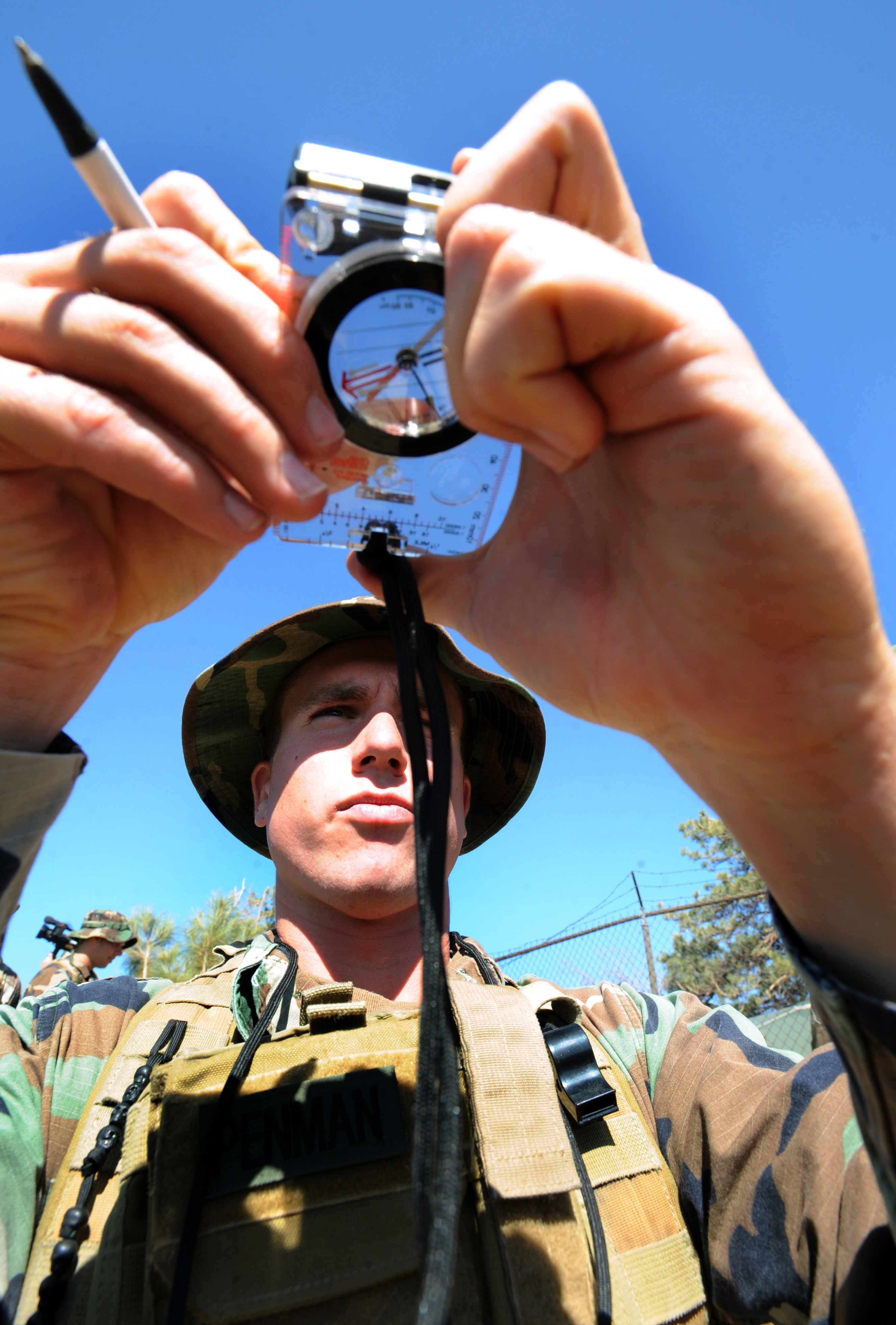 MOUNT LAGUNA, Calif. (March 16, 2009) A Basic Underwater Demolition/SEAL (BUD/s) candidate reads his compass during basic land navigation training. Basic land navigation teaches candidates how to read a map, plot coordinates and navigate over various types of terrain. This training is taught during the third phase of the six-month long BUD/s training. (U.S. Navy photo by Mass Communication Specialist 2nd Class Dominique M. Lasco/Released)